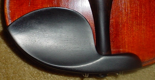 A Guarneri-type chinrest.